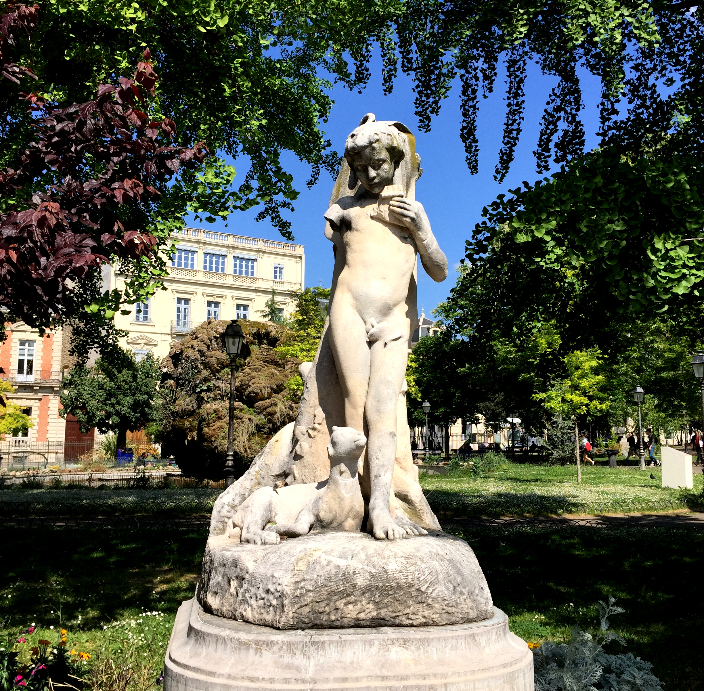 The statue " The rustic song " in the square Planchon at Montpellier (Hérault).